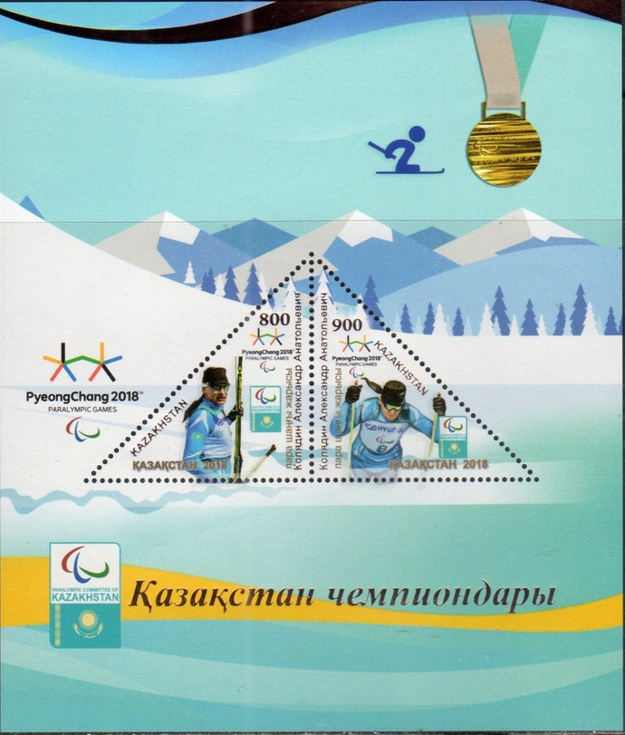 1111-1112. Sport. XII Paralympic Winter Games